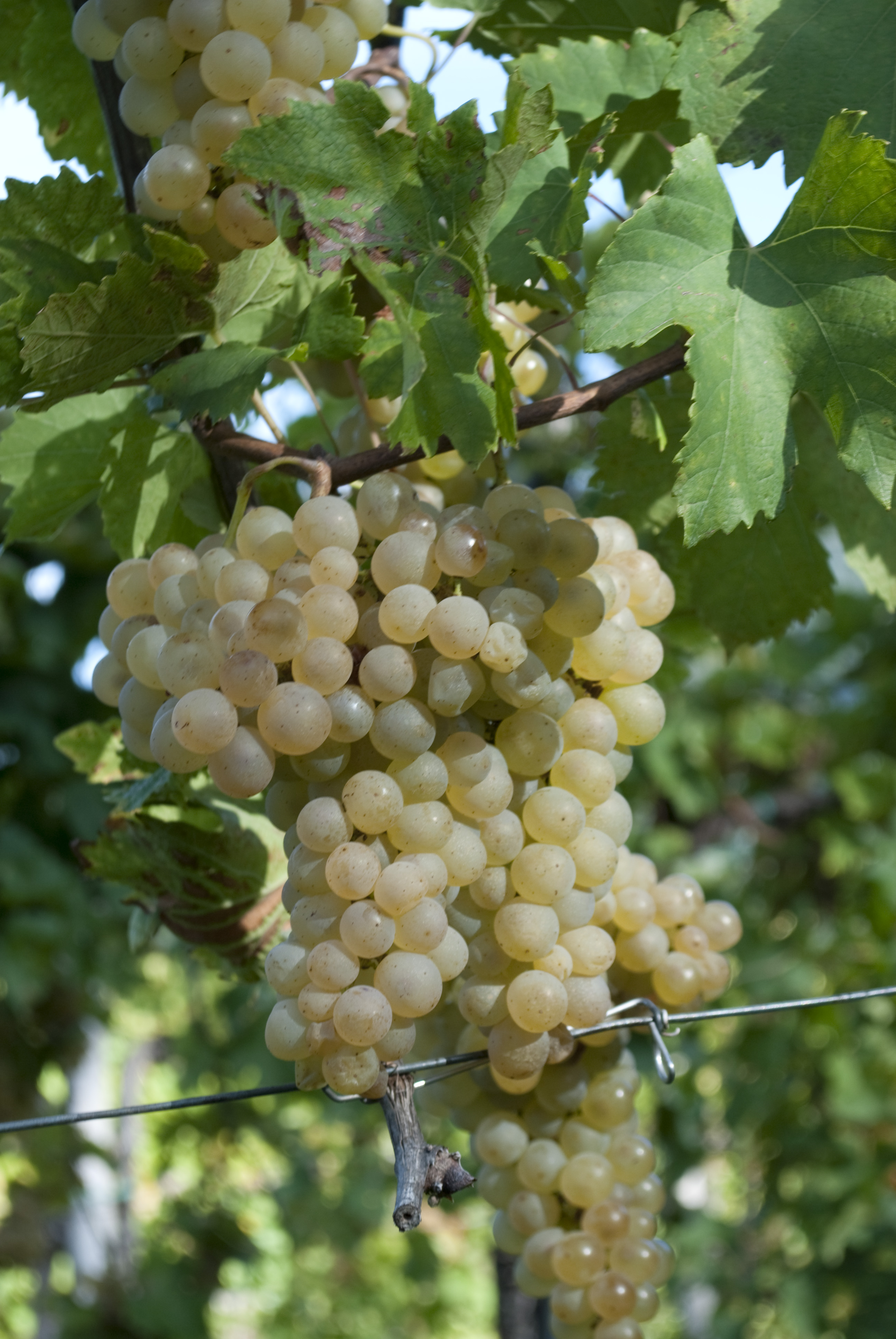 Grape of the variety Bacchus